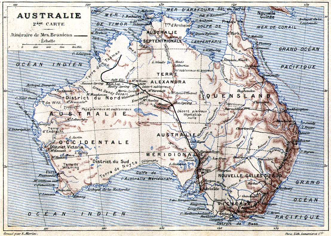 Map by Léon Benett to J. Verne novel